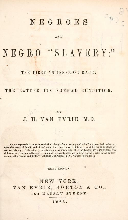 Title page of the third edition of Negroes and Negro "Slavery" by John H. Van Evrie